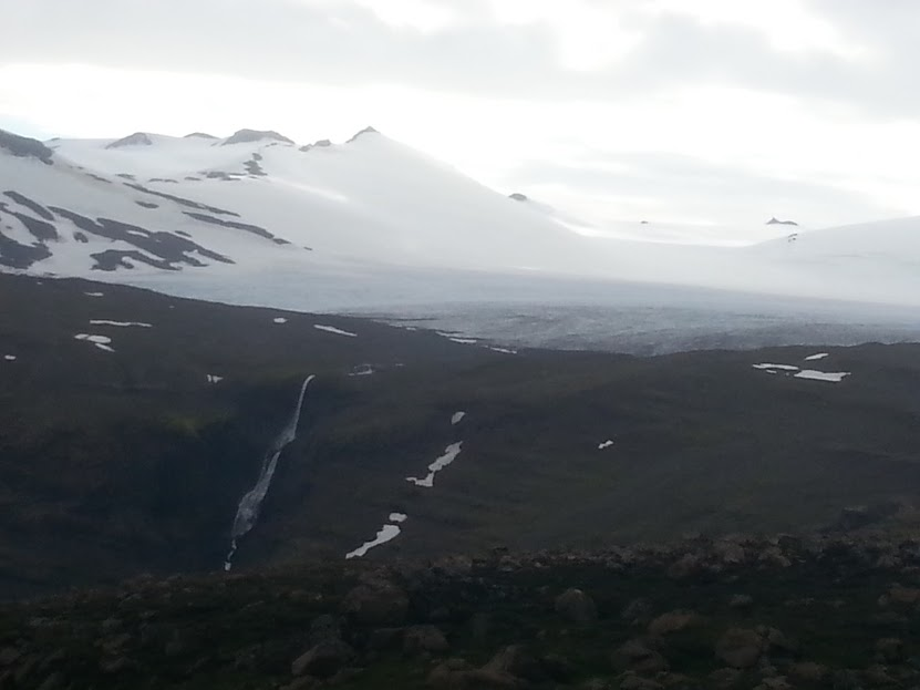 Vatnajökull